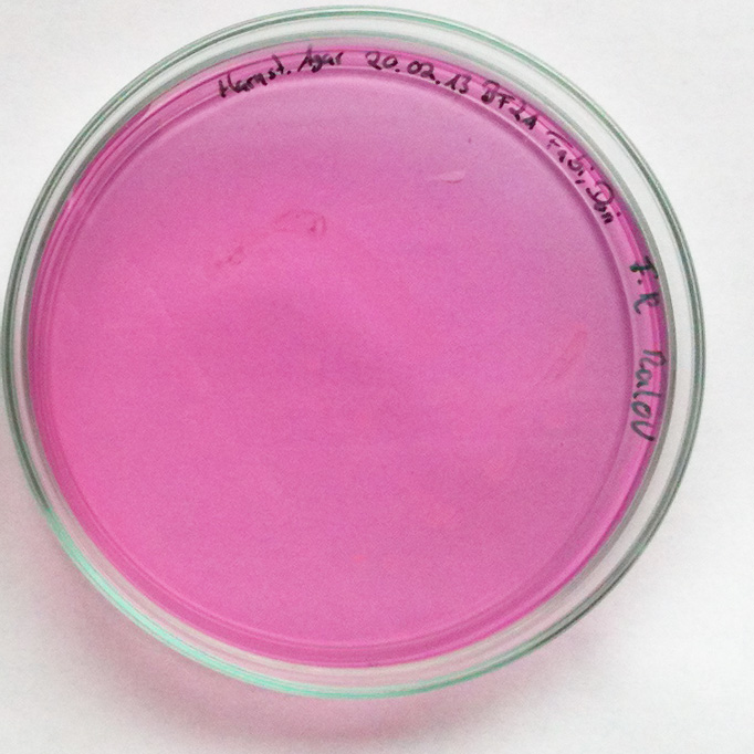 Raoultella planticola on urea agar acc. to Christensen, showing a positive result (the microorganism has the ability to produce the enzyme urease in order to hydrolyze urea to ammonia)